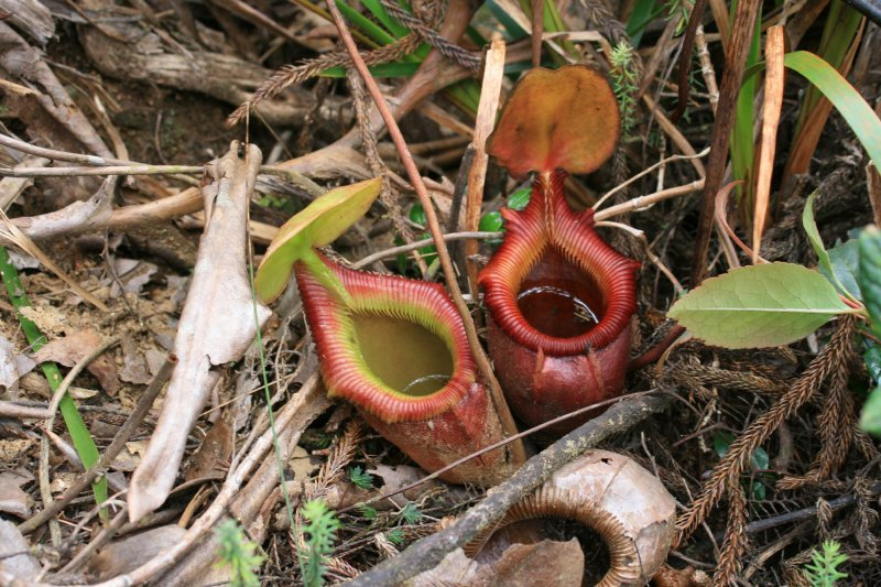 Lower pitchers of Nepenthes × kinabaluensis growing along the Mount Kinabalu summit trail